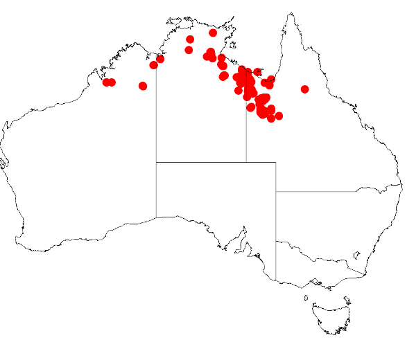 Acacia asperulacea Occurrence data from Australasia Virtual Herbarium downloaded from on 8 December 2018